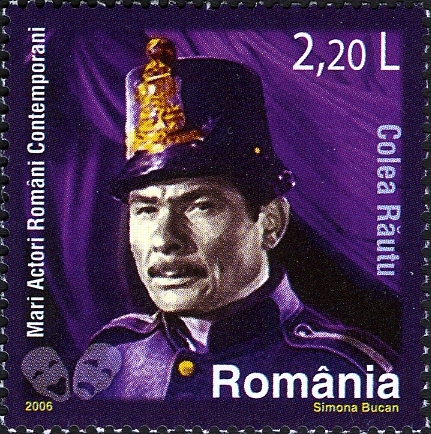 Colea Răutu, Stamps of Romania, 2006